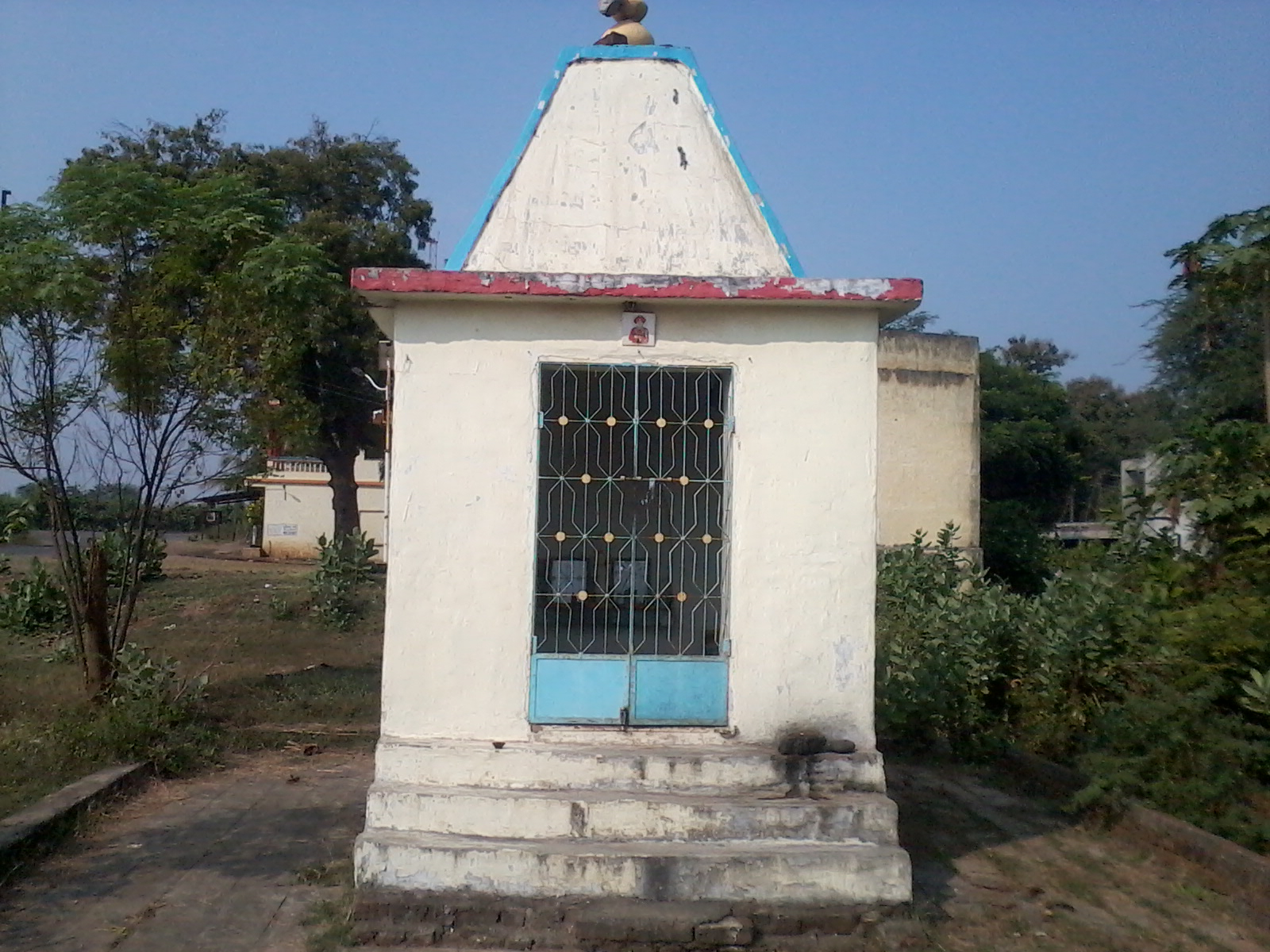 Vachhavad4